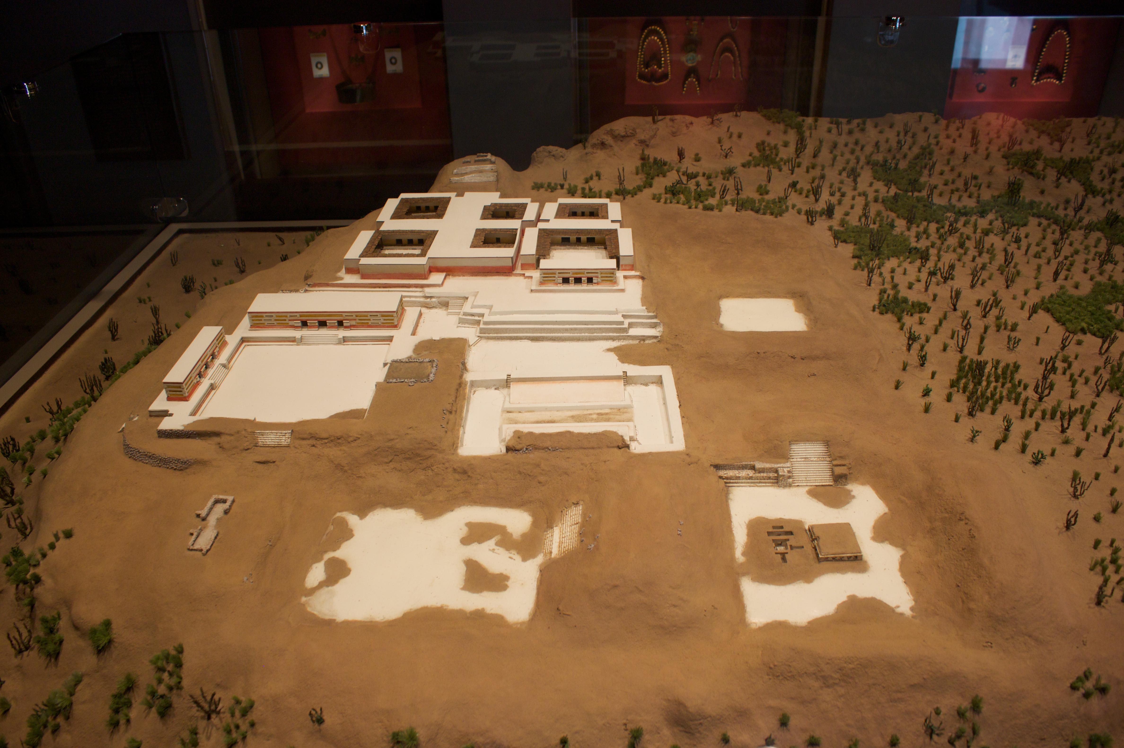 Yagul palace MNA